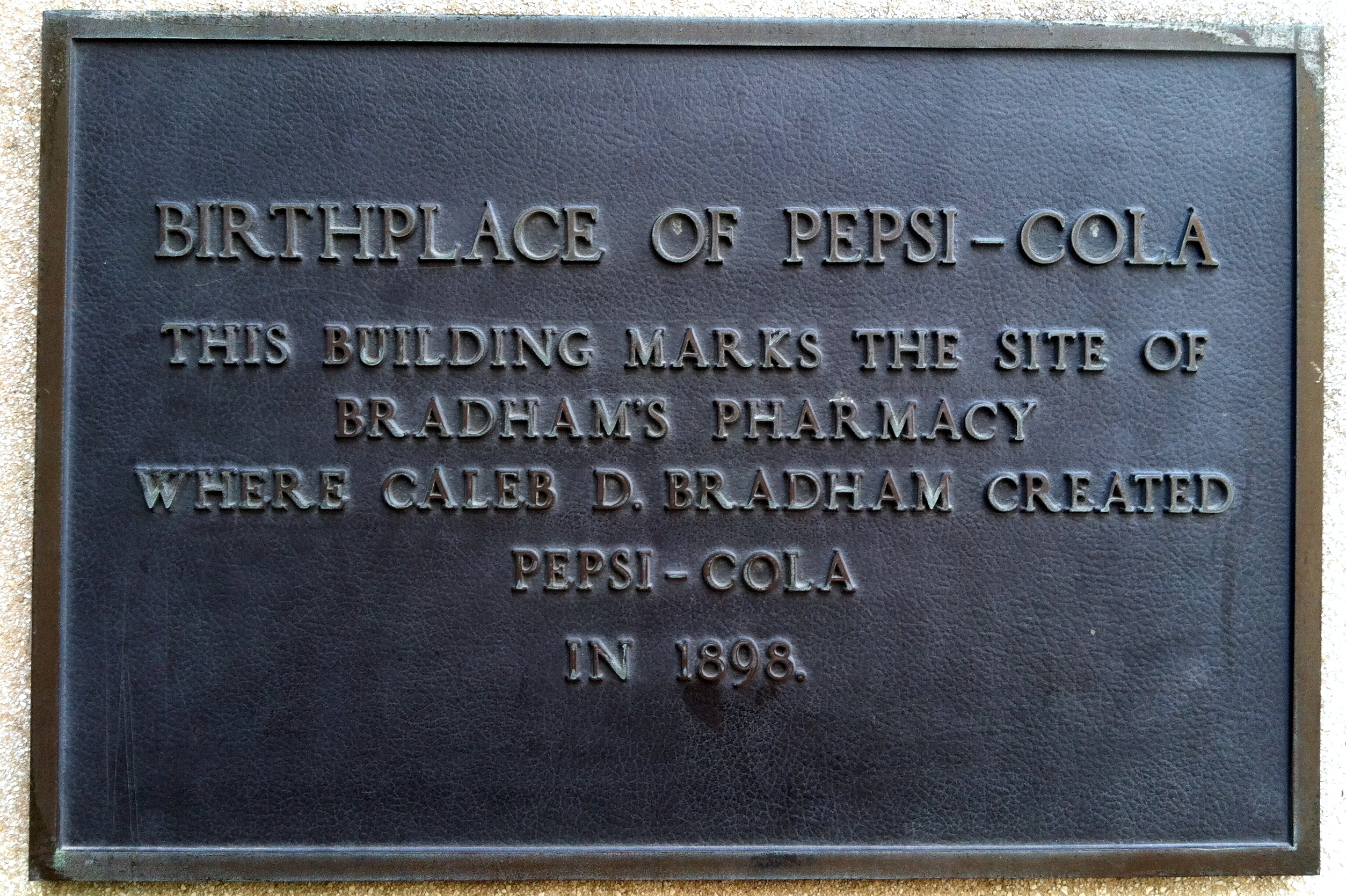 plaque marking the spot where Pepsi was first created